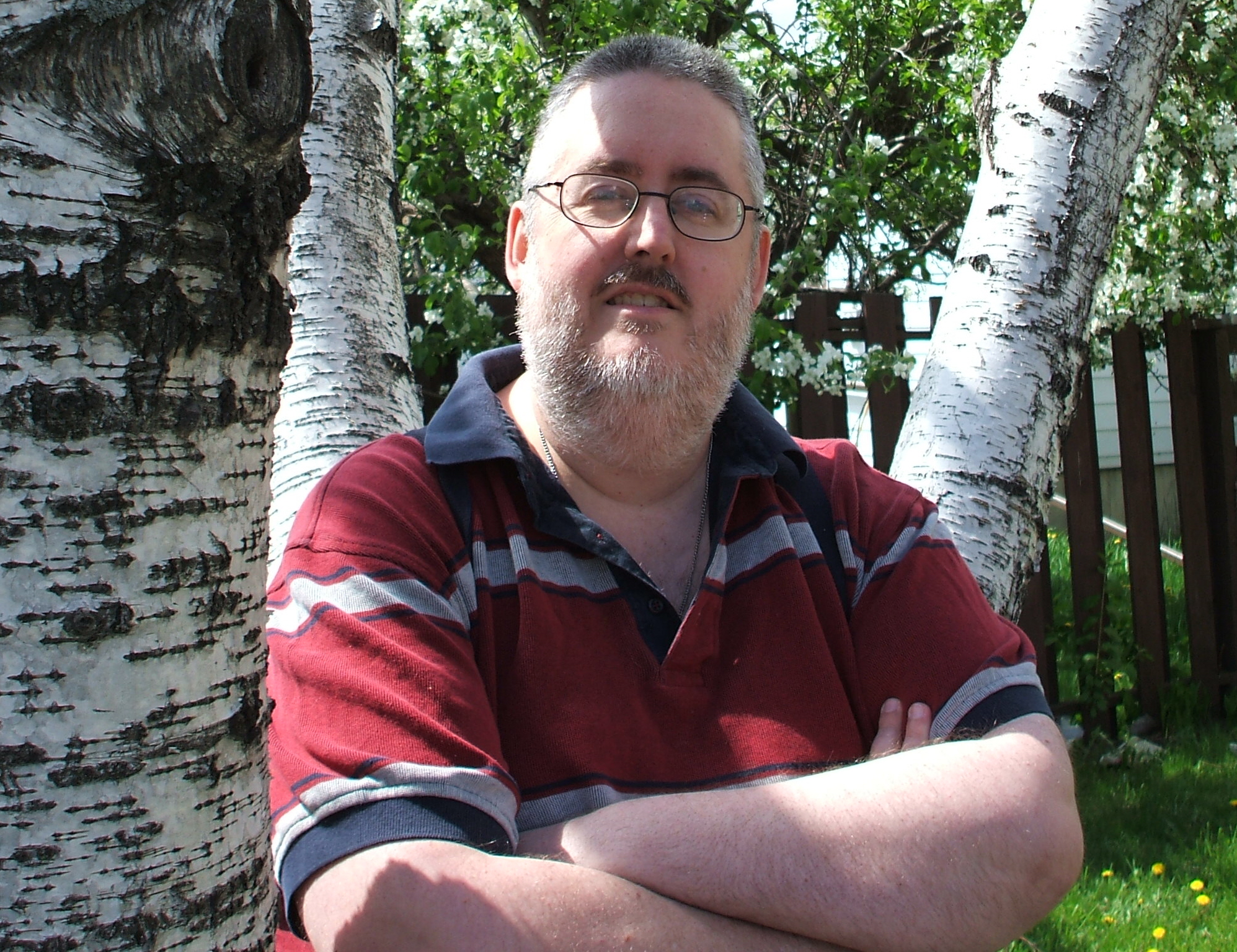 Austin Mardon poses for a portrait photo in front of trees in the summer.